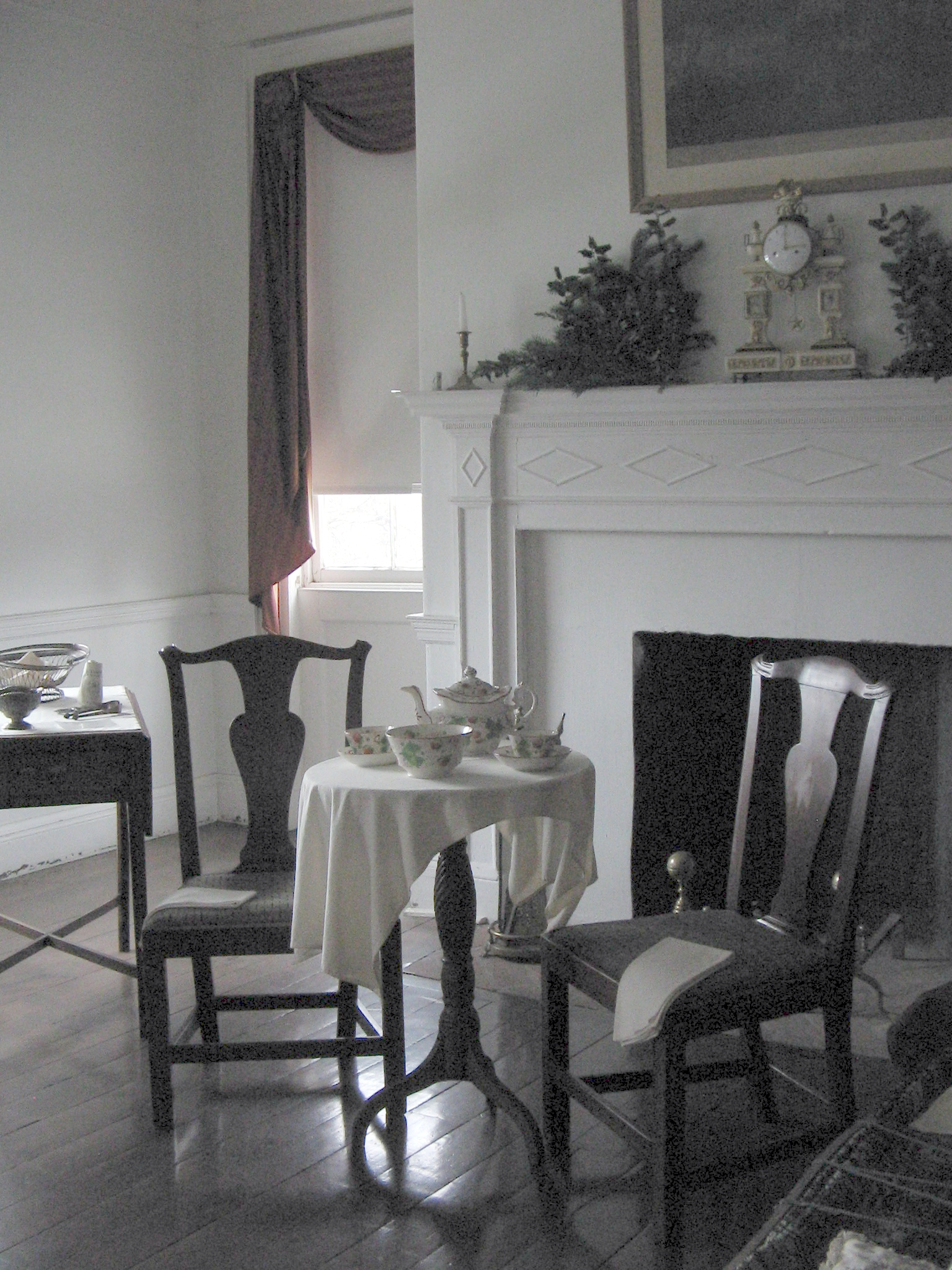 Chairs, tea service and mantel clock belonged to the Priestleys - on display in an upstairs Bedroom of the Joseph Priestley House in Northumberland, Northumberland County, Pennsylvania, USA. Bedroom was likely designed for Joesph Priestley's wife Mary but likely occupied by his daughter-in-law as Mary died before the house was completed. Only room above the ground floor open to the public.